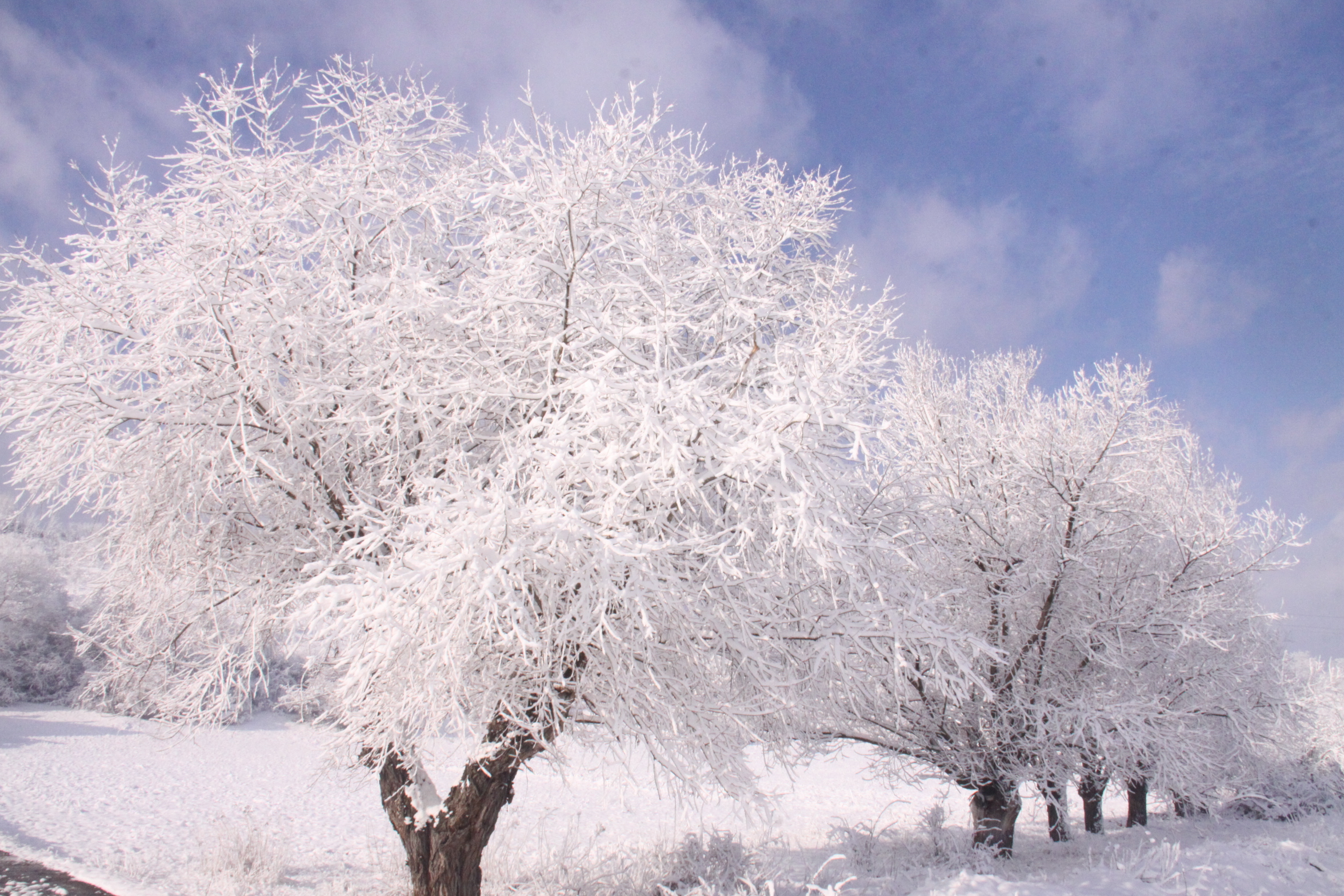 Village , Peran